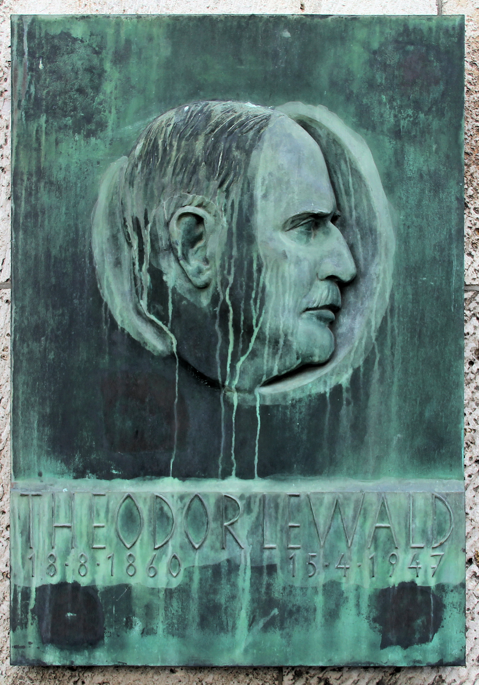 Memorial plaque, Theodor Lewald, Olympischer Platz 4, Berlin-Westend, Germany Koordinate:52°30′54″N 13°14′34″E / 52.515°N 13.24278°E